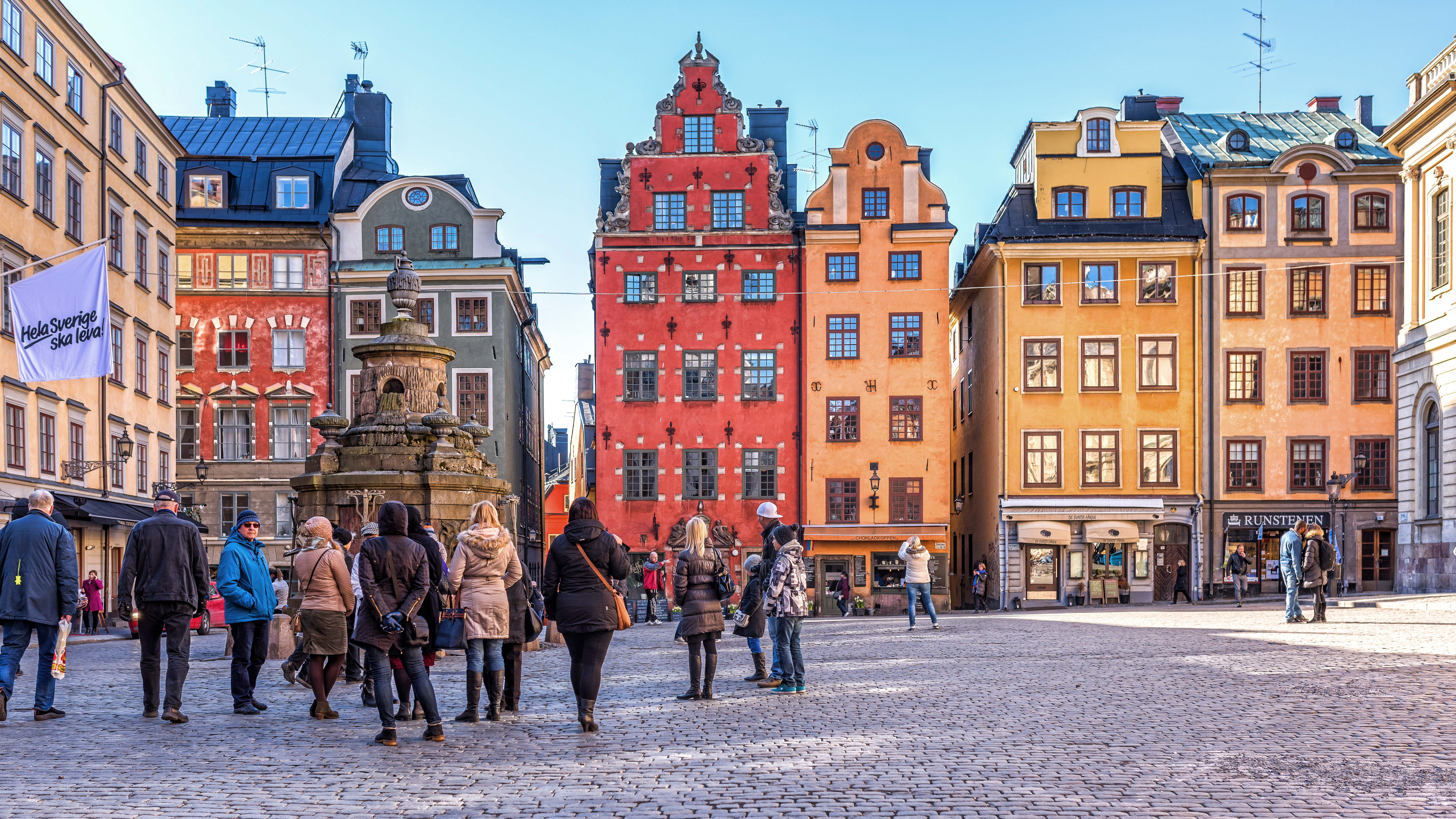 Old Town Stockholm March 2015